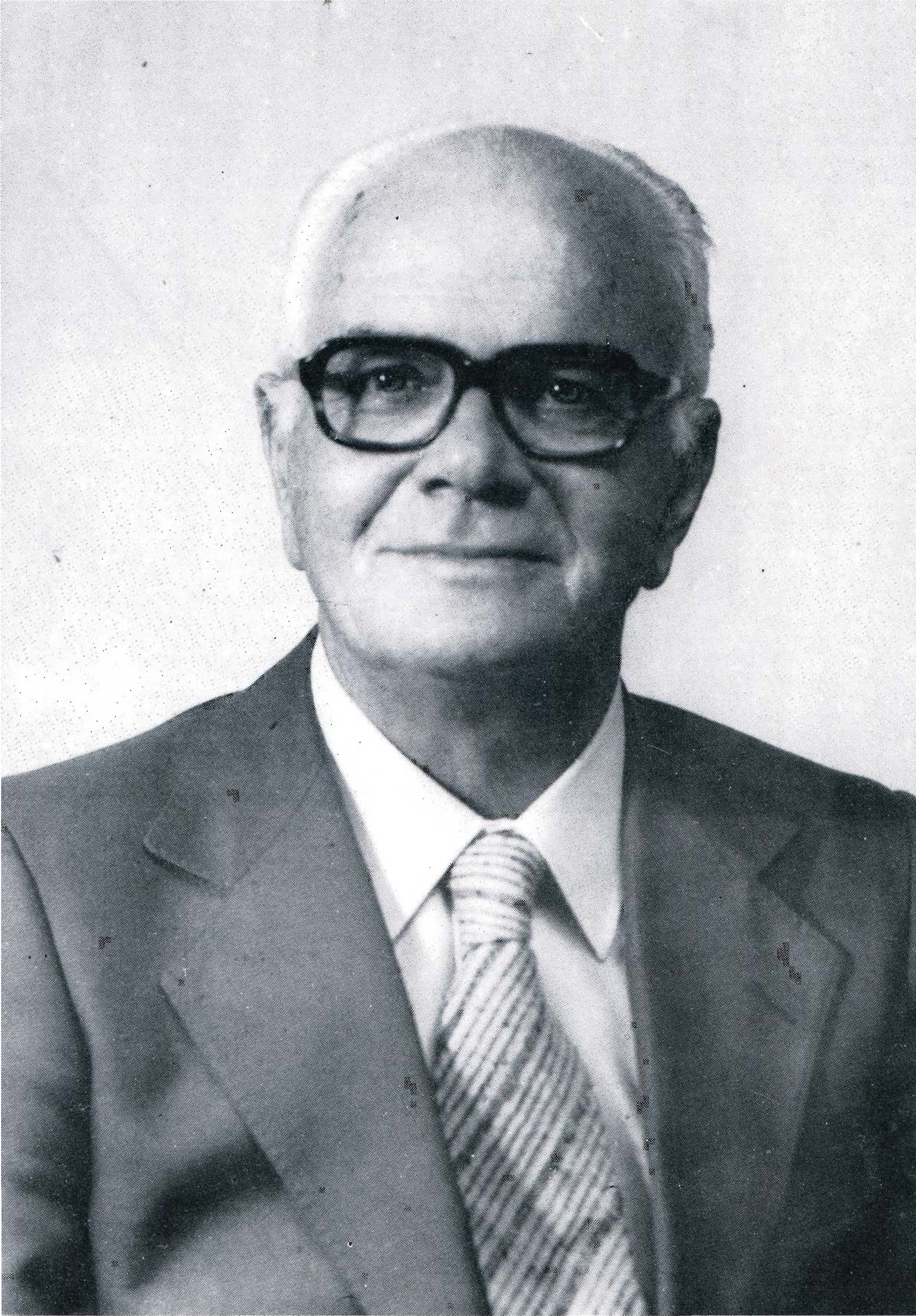 Portrait of the Italian Arabist, Prof. Umberto Rizzitano